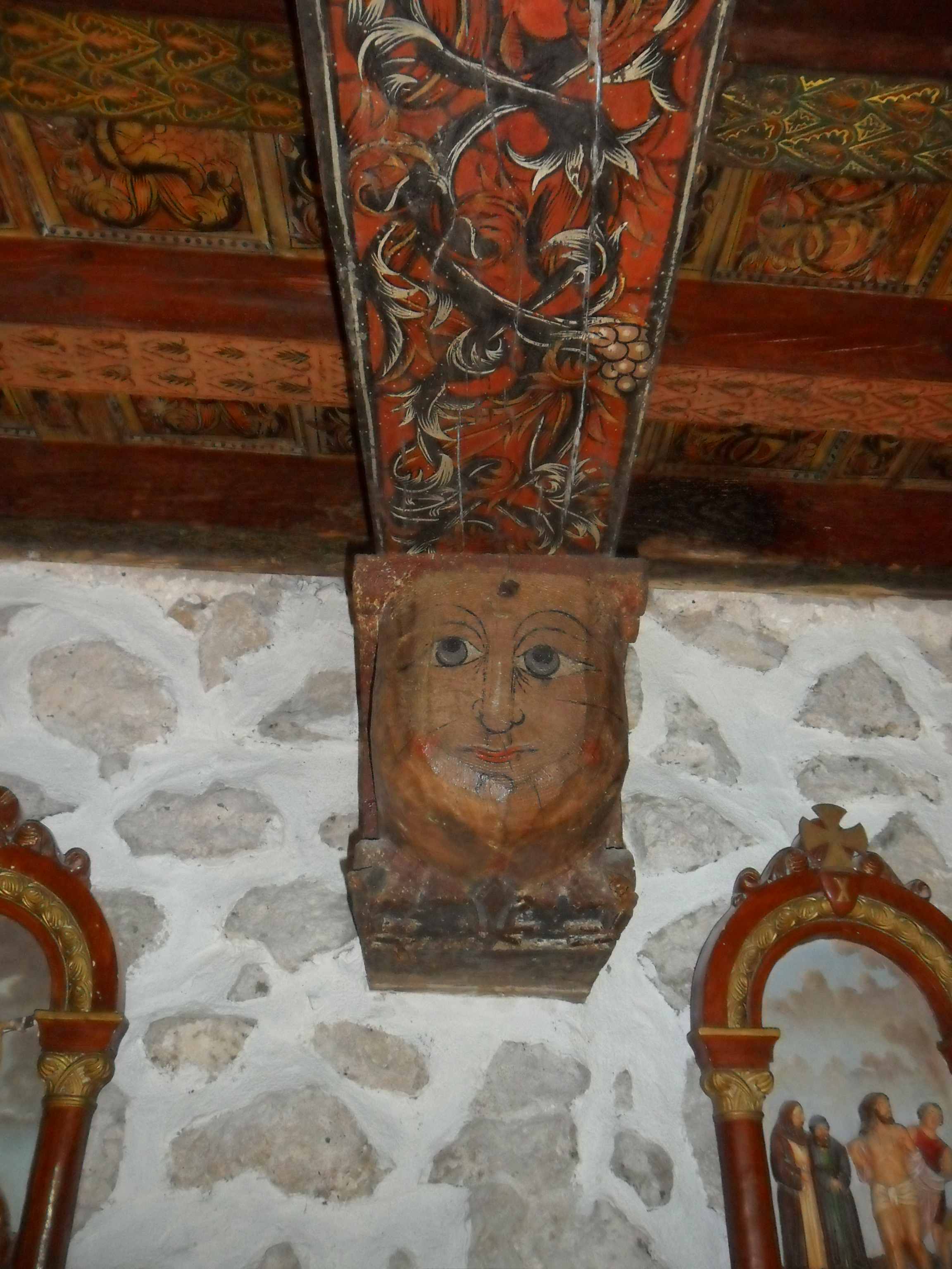 Mudejar art. Medieval painting egg based (XIV century). Santibáñez de Valcorba, Valladolid.Spain